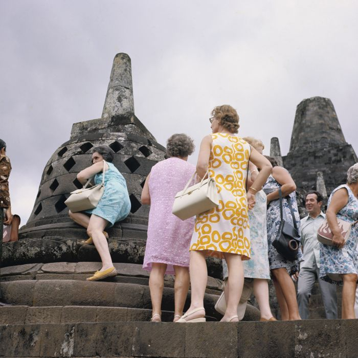 Tourists between the stupas on the Borobudur